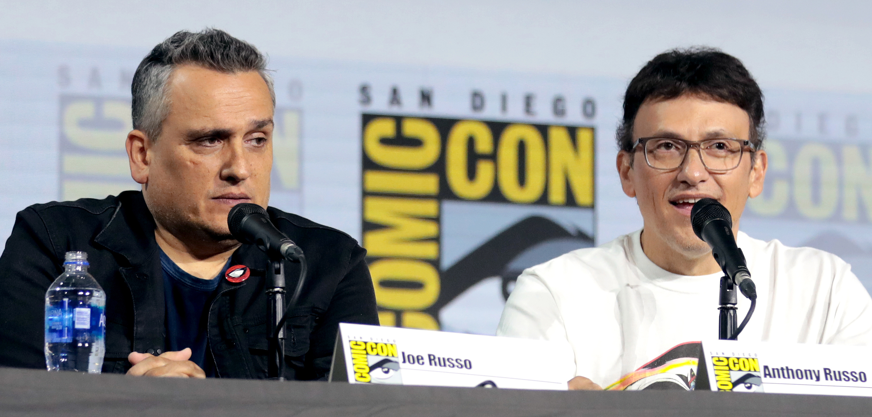 The Russo brothers speaking at the 2019 San Diego Comic-Con International in San Diego, California.